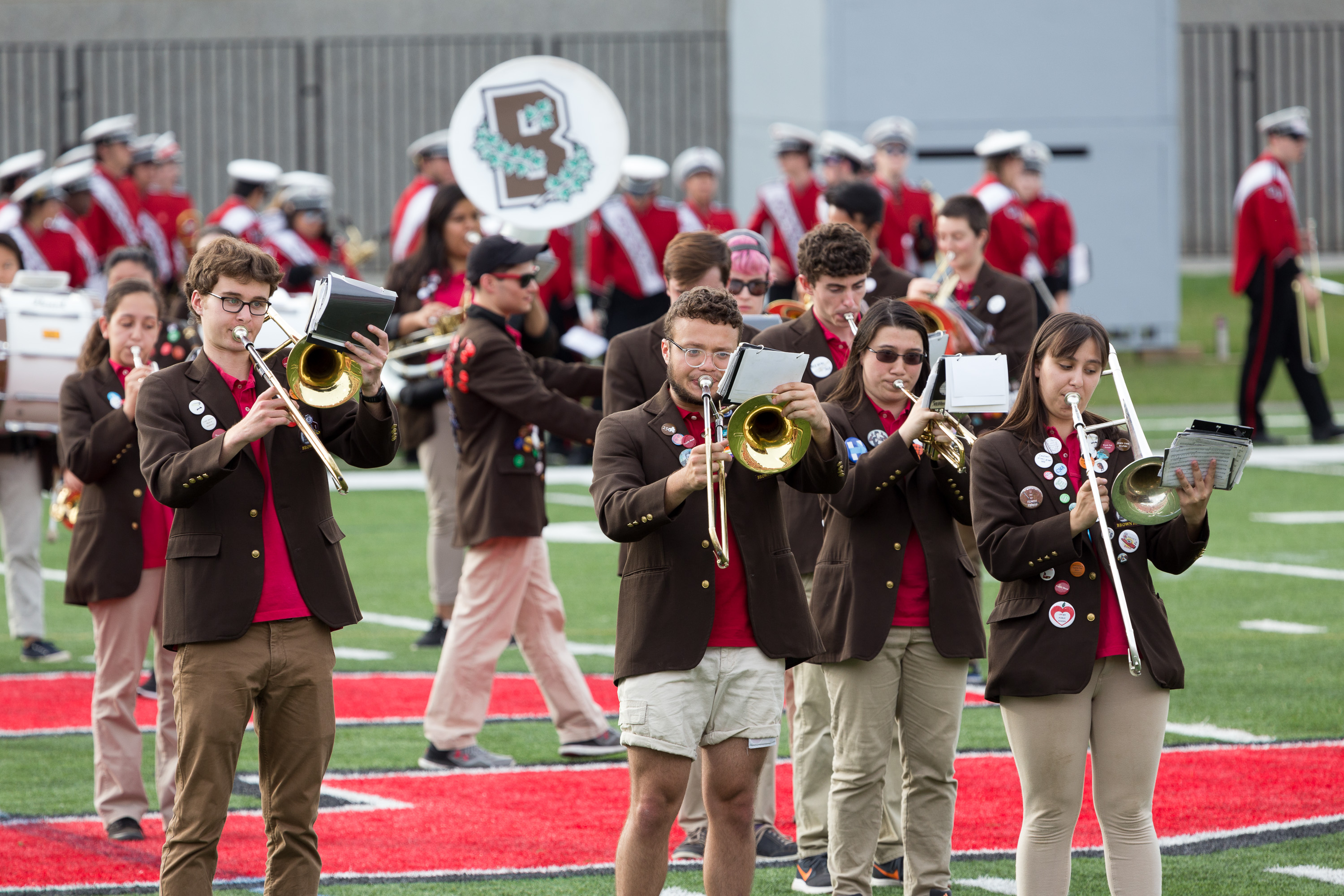 Brown University Band plays at Cornell v. Brown game, Schoellkopf Field, Cornell University. October 21, 2017. The Brown band wears brown blazers, the Cornell band in red uniforms behind them.